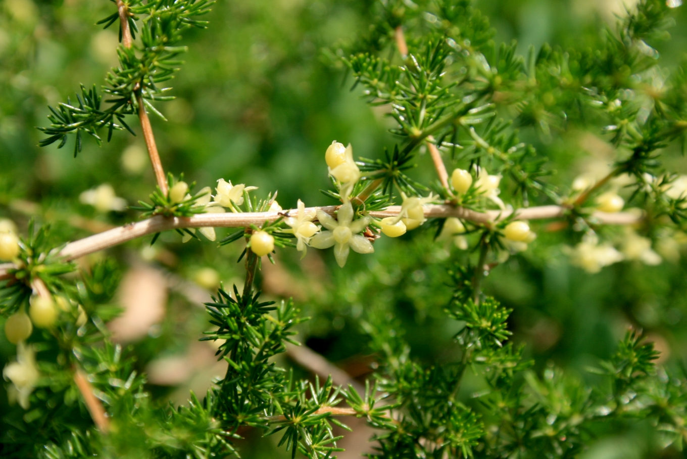 Asparagus acutifolius: Flowers